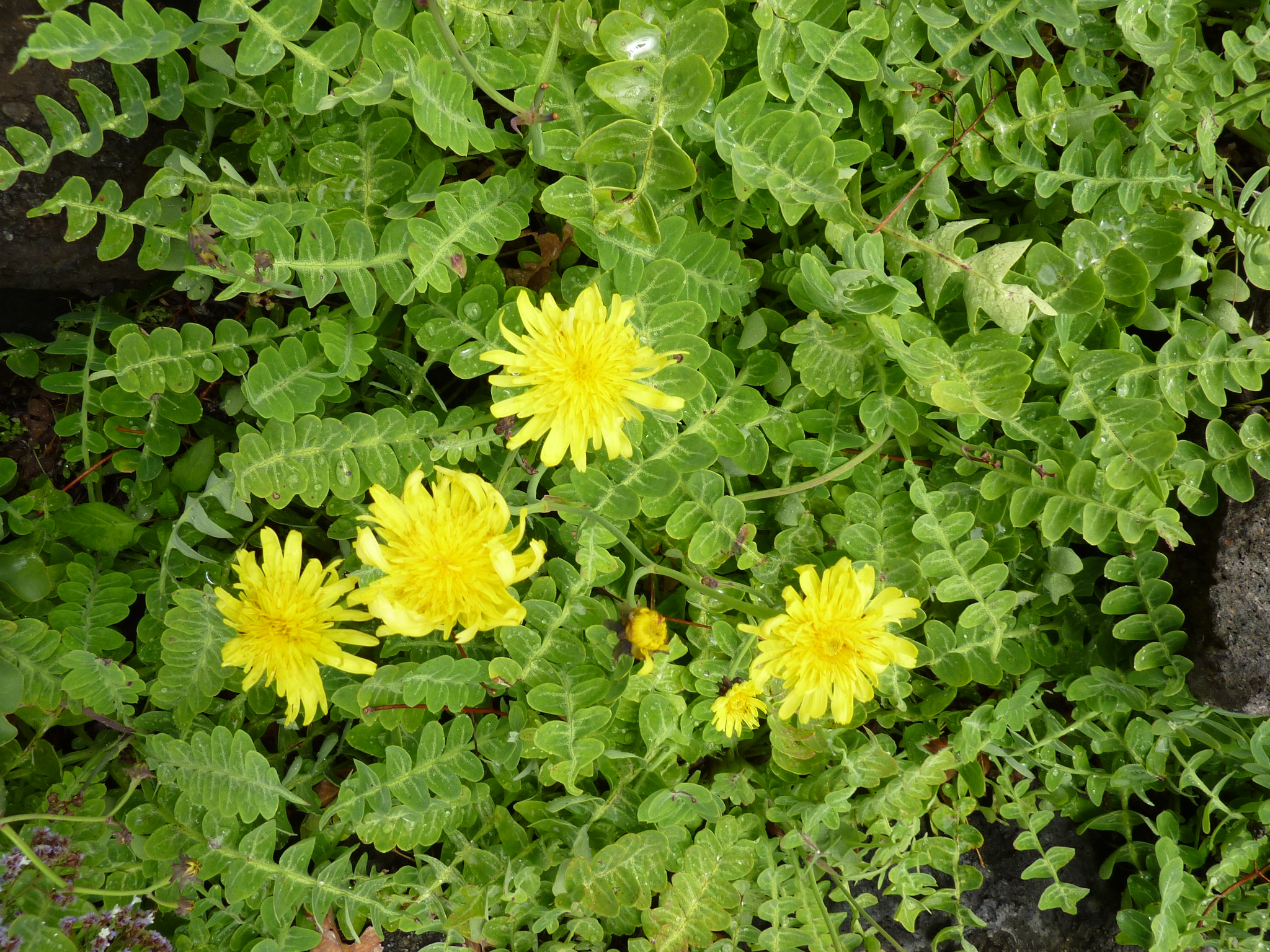 Sonchus ustulatus subsp. maderensis in the Jardín Botánico Canario Viera y Clavijo.